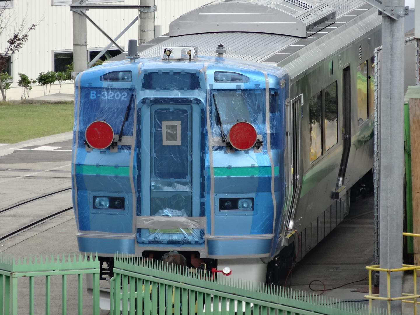 JR Hokkaido 733 series EMU set B-3202 awaiting delivery at the Kawasaki Heavy Industries factory in Kobe